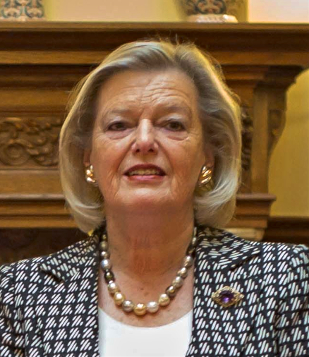 OSCE PA President Christine Muttonen with Dutch Senate President Anneke Broekers-Knol and members of the Dutch delegation to the OSCE PA at The Hague